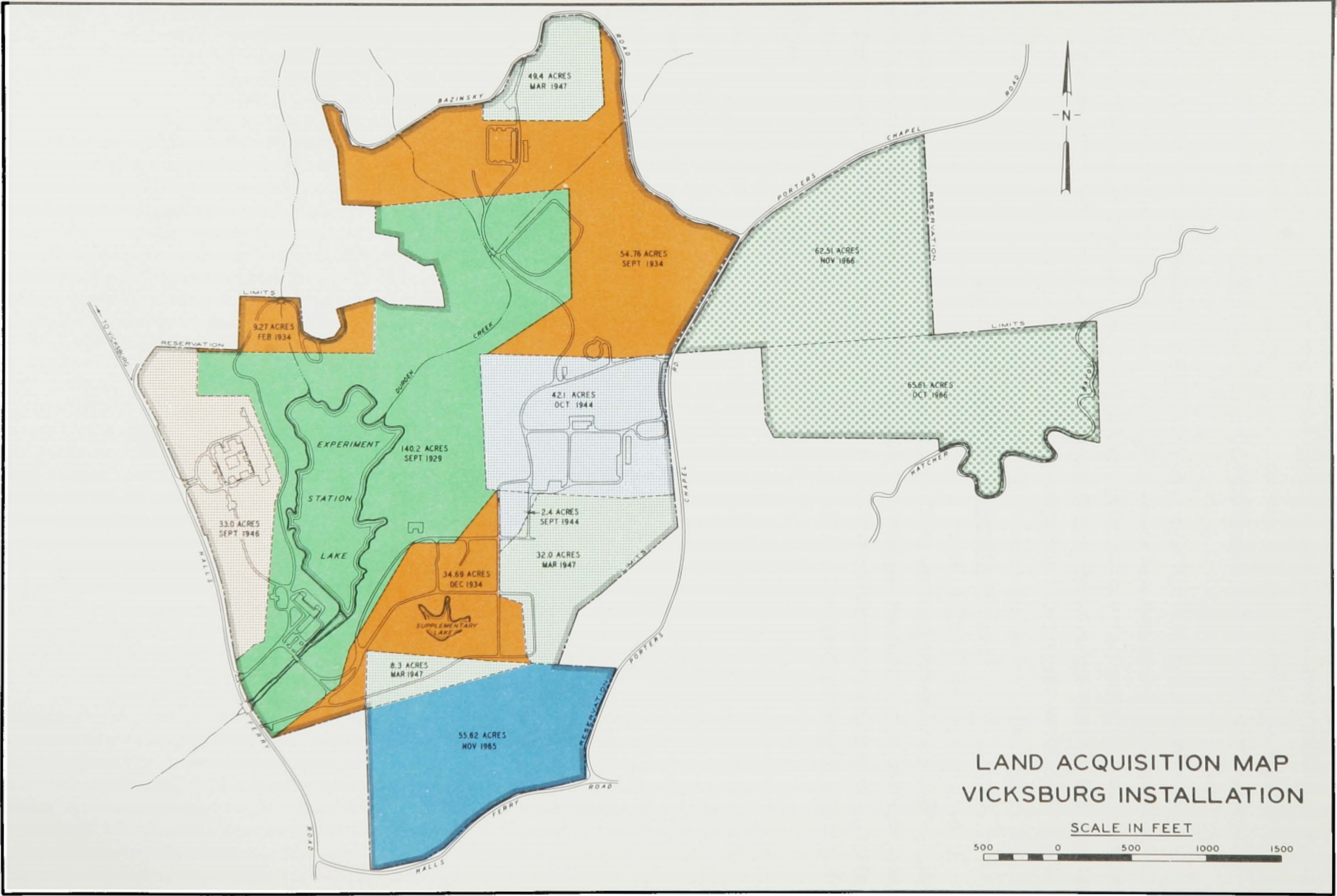 Map showing the extent of Waterways Experiment Station as of 1968 and the order (and size) in which the parcels of land were acquired.